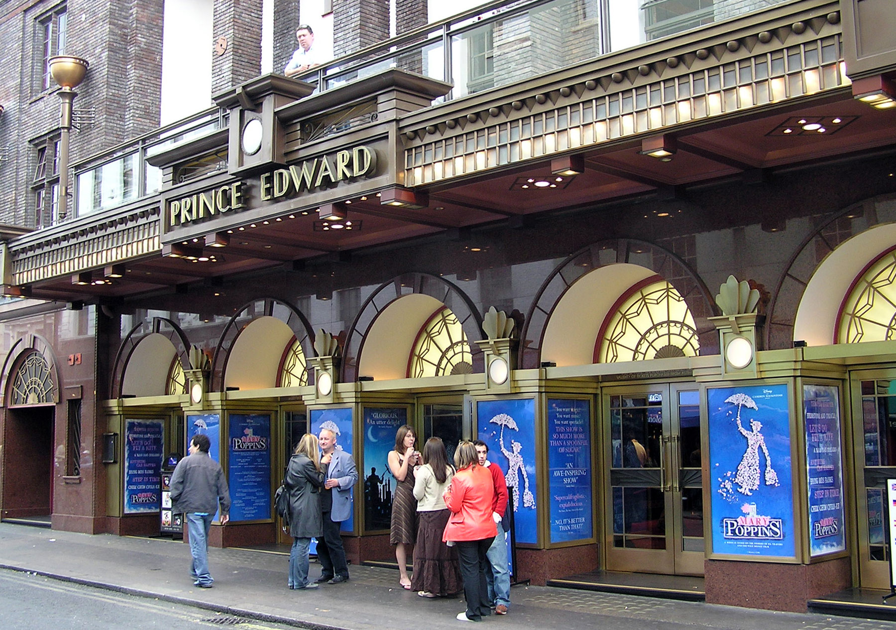 Prince Edward Theatre, London, England. Photographed by Adrian Pingstone in June 2005 and released to the public domain.